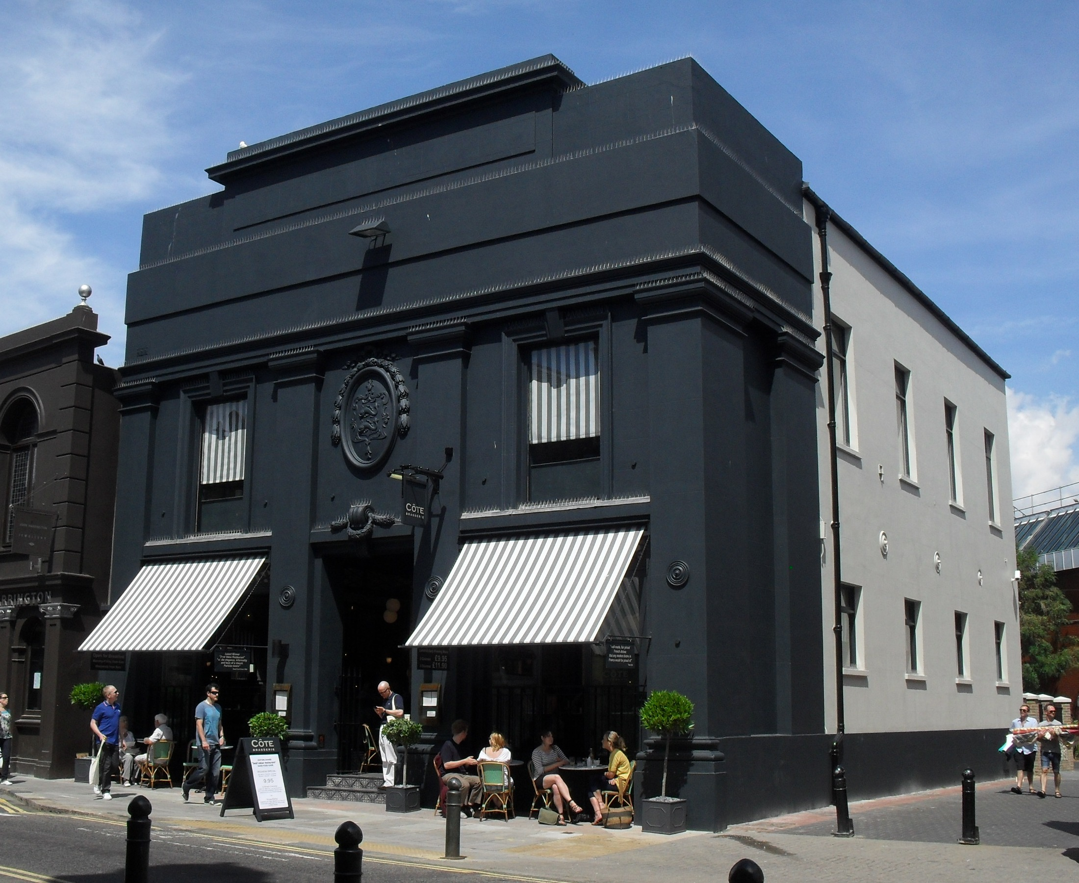 Former Trinity Independent Congregational Chapel, Church Street, Brighton, City of Brighton and Hove, England. Founded in nearby Ship Street in Mr Faithful's Chapel; moved here in the 1820s; closed in 1896. The building has had many uses since then, and reopened (after renovation) as a restaurant in July 2010.